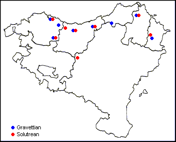 Author: Sugaar Source: X. Peñalver, Euskal Herria en la Prehistoria, 1996. ISBN 84-89077-58-4 Legend: Main Gravettian (blue) and Solutrean (red) sites in the Basque Country